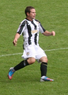 Judge in action V AEK Athens